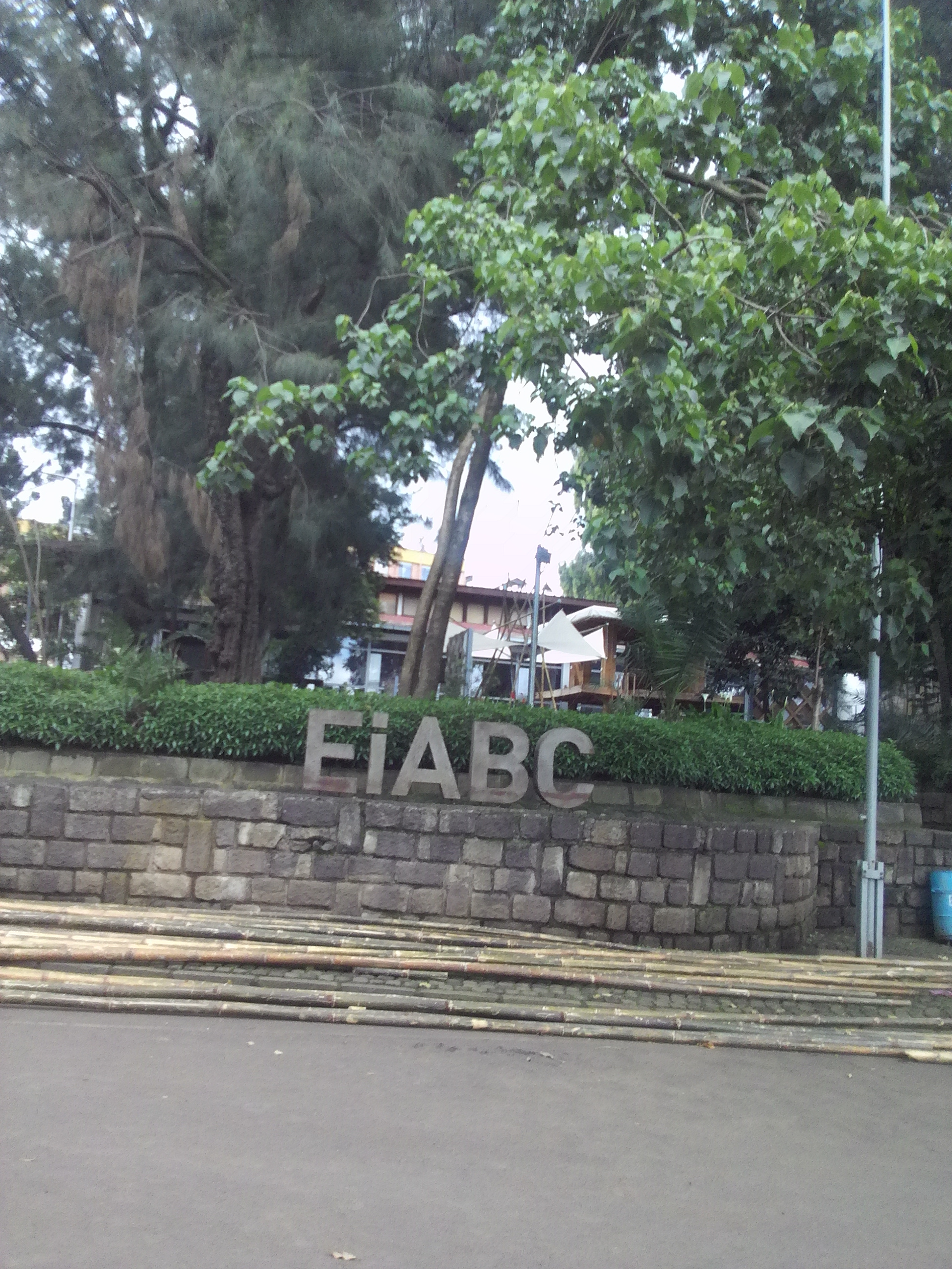 EiABC entrance views